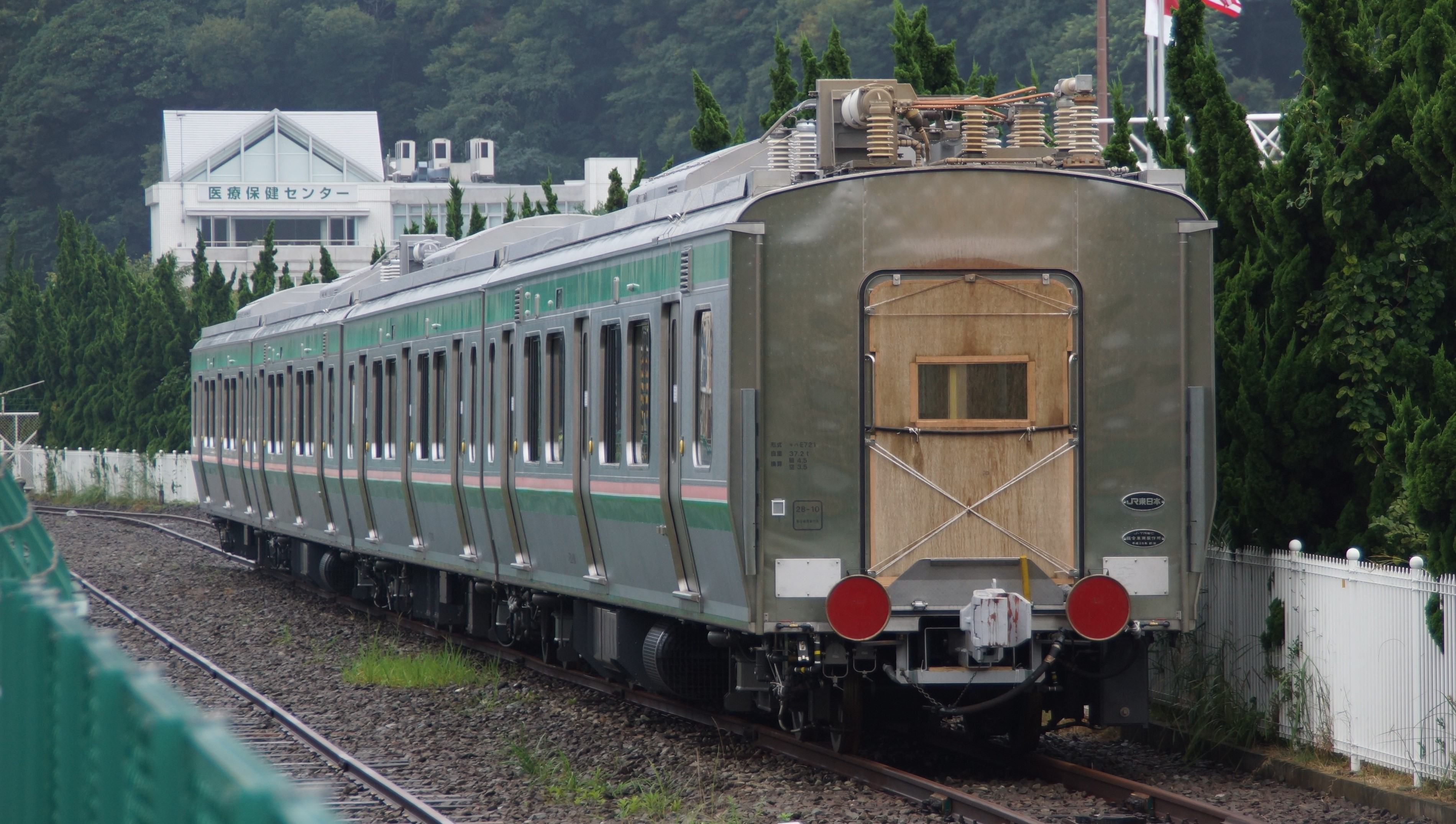 JR East E721-1000 series EMU intermediate cars (from camera: MoHa E721-1001 + SaHa E721-1001 + MoHa E721-1002 + SaHa E721-1002) parked next to Jimmuji Station on the Keikyu Zushi Line while being moved from the J-TREC factory in Niitsu to the company's Yokohama factory to be mated with the driving cars being built there